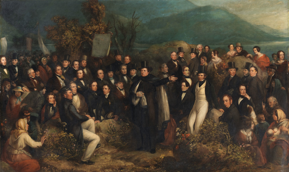 The Monster Meeting at Clifden in 1843. Daniel O'Connell, M.P., (1775-1847), who campaigned for Catholic Emancipation, addressing his supporters at "The Monster Meeting of the 20th September 1843 at Clifden", County Galway, Ireland.)